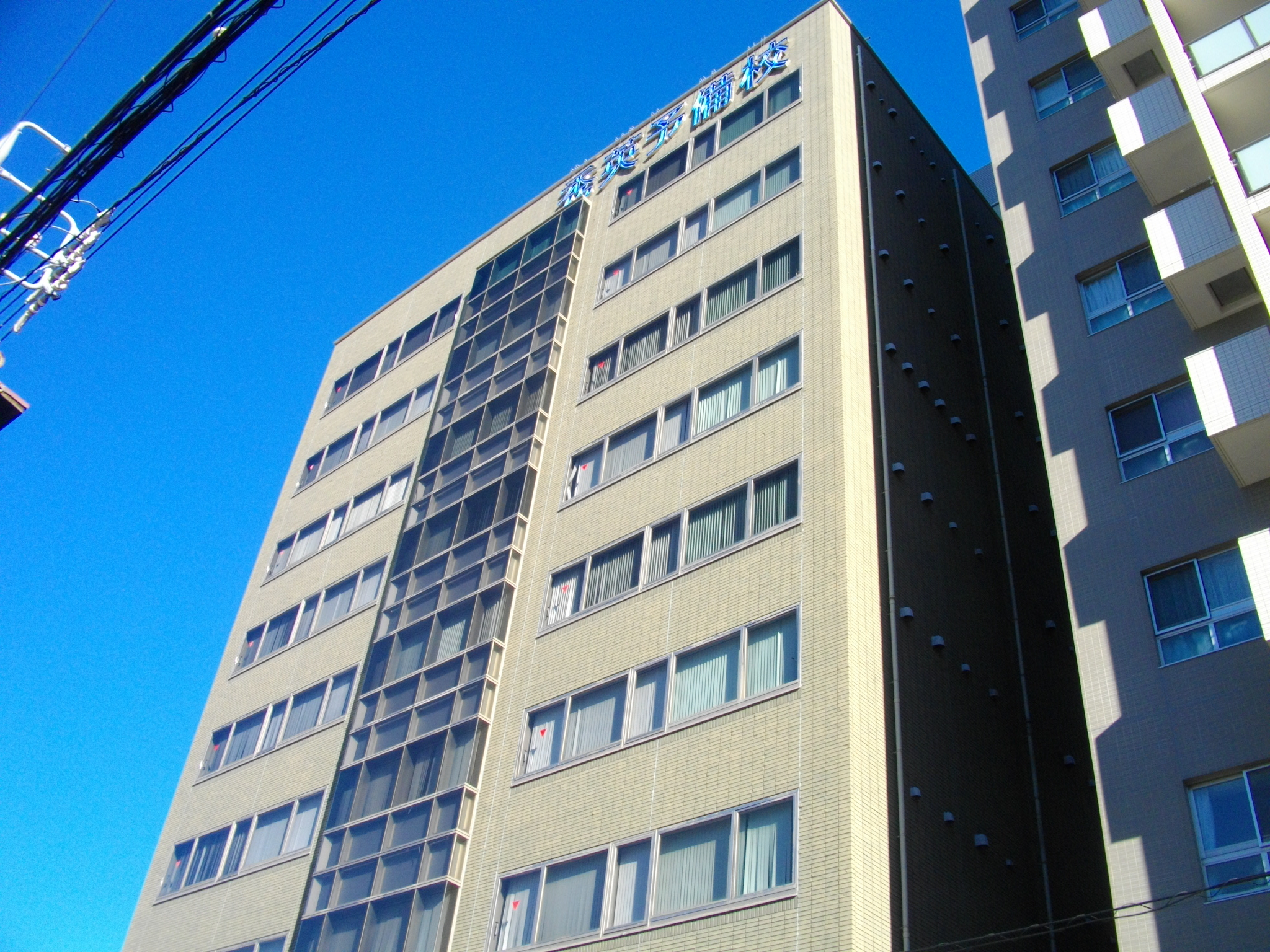 Shuei Yobiko Headquarters